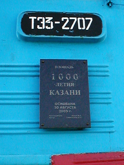 Memorial plate on TE3-2707 diesel locomotive. Kazan 1000 years square in Yudino locality in Kazan, infopad